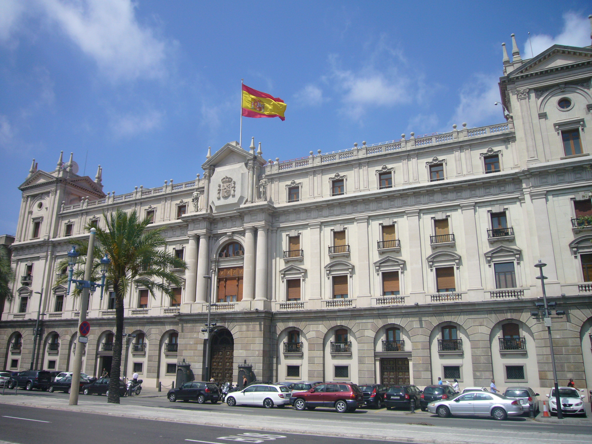 Capitania General, Barcelona.